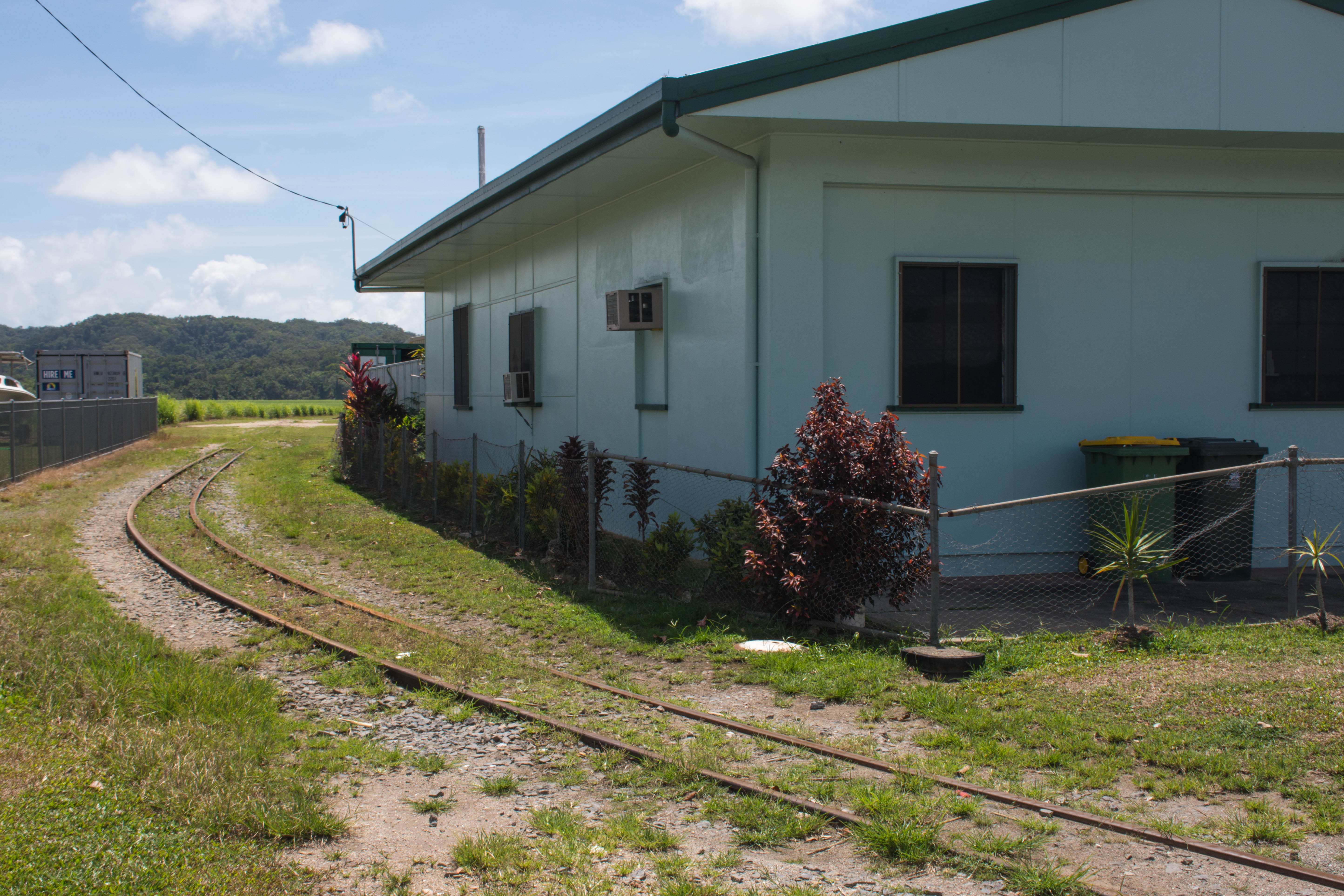 A house on the edge of the cane fields in Miallo, Queensland, Australia. The cane railway to Mossman passes right next to the house.